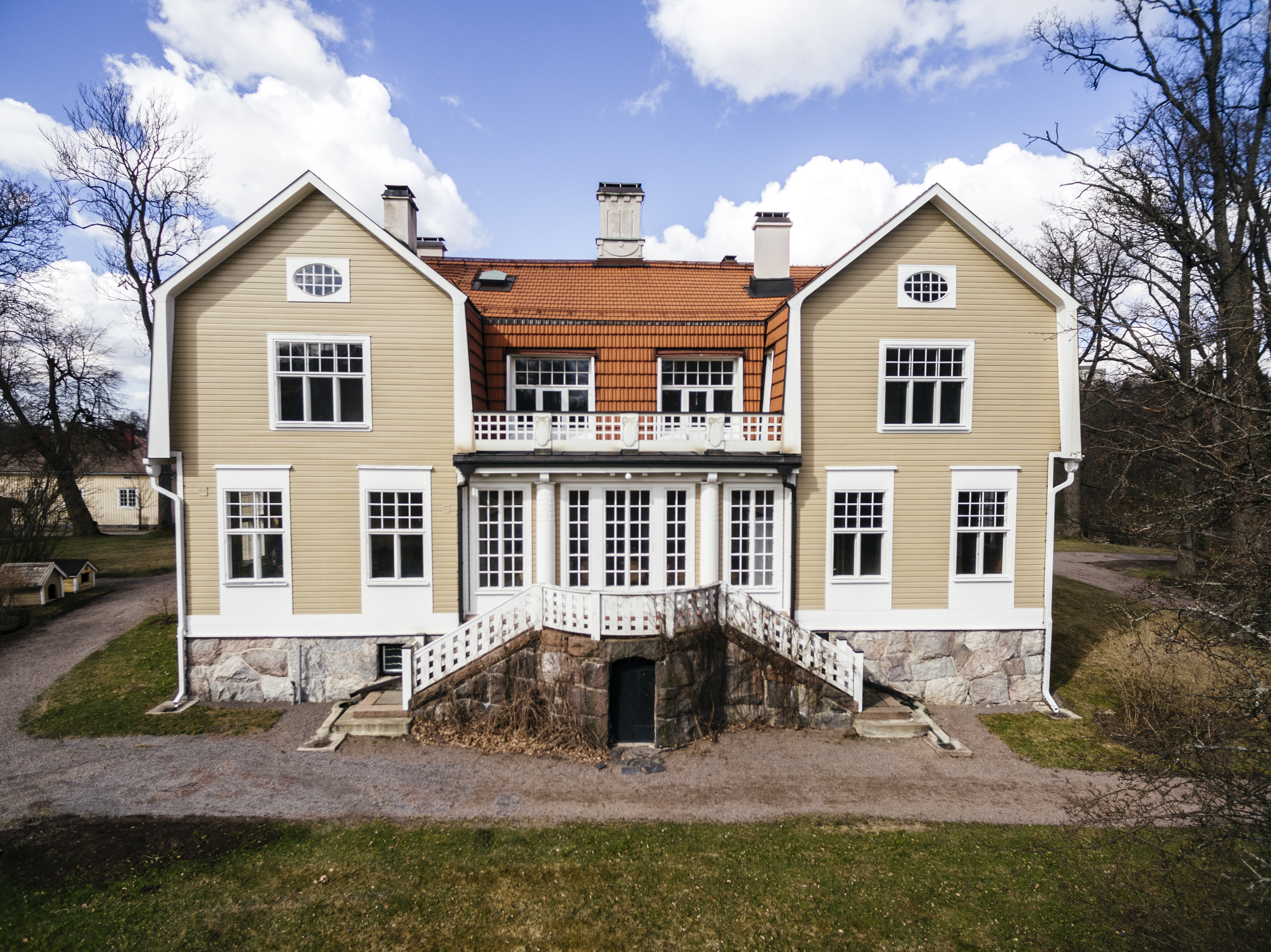 Håkansböle manor in Vantaa on 11 May 2018.